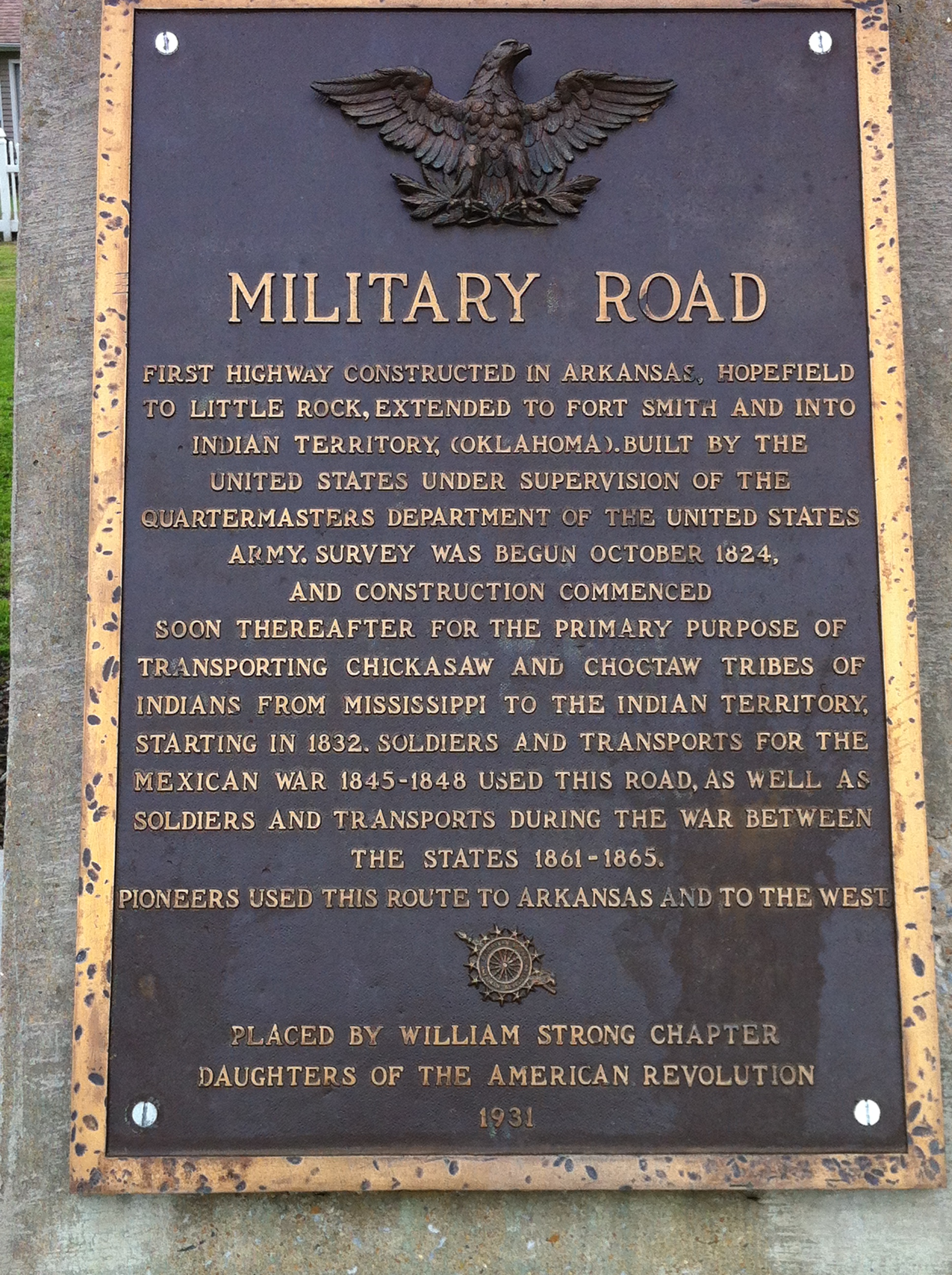 Historic marker of US 64/Military Road in Marion, AR near the junction of US 64 and AR 77.